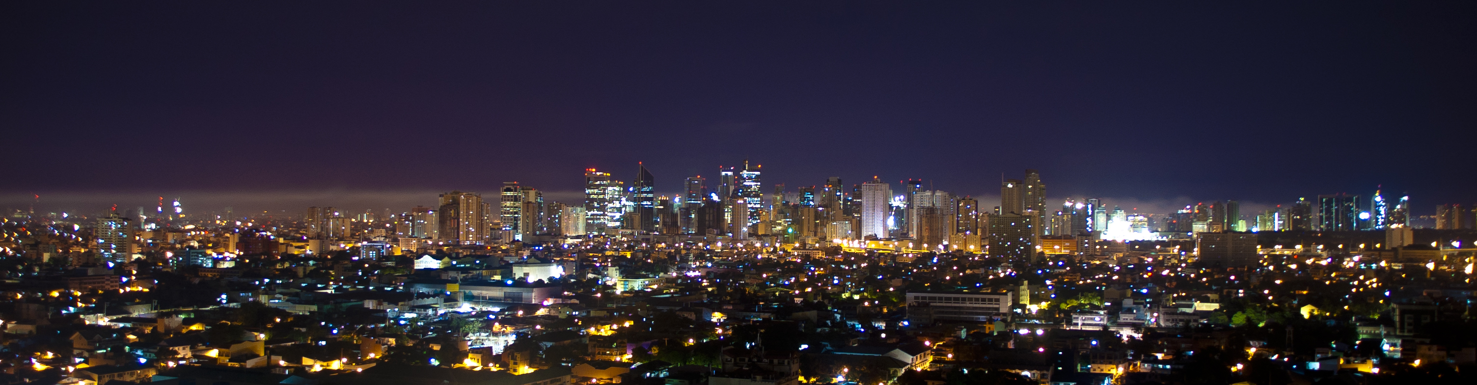 Skyline of Makati taken at night using a Nikon D40 along with a Nikkor 18-105mm lens.